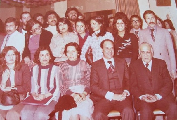 NIOC Faculty of Accounting and Financial Sciences